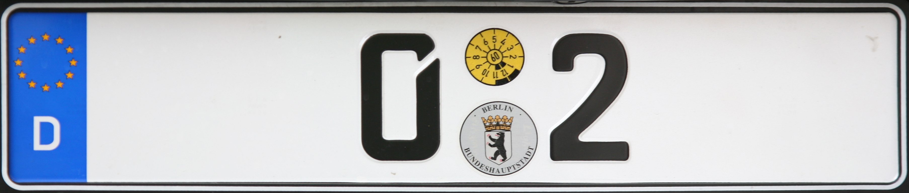 Licenseplate of Limousine of the German Chancellor